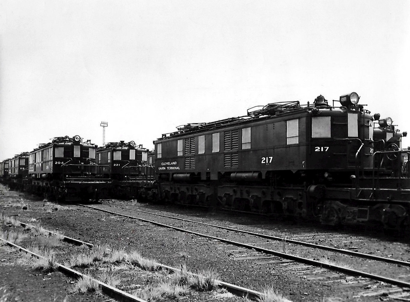 Photo of NYC-P electric locomotives at General Electric, Erie, for electrical modifications. Since it's not certain whether the photo has been cropped, a copyright renewal search was done at for General Electric in 1954. There were no results; there's no evidence of renewal.